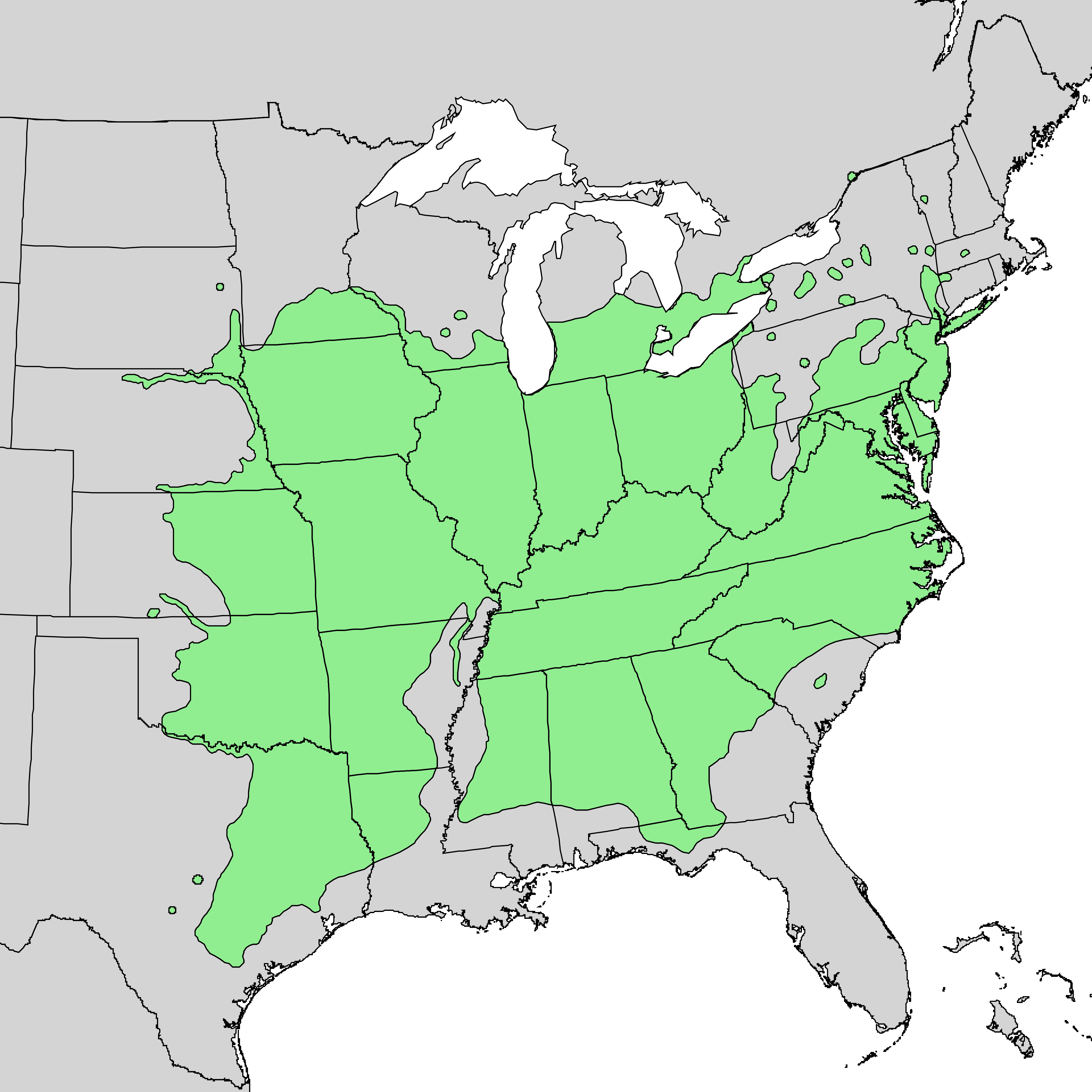 Natural distribution map for Juglans nigra